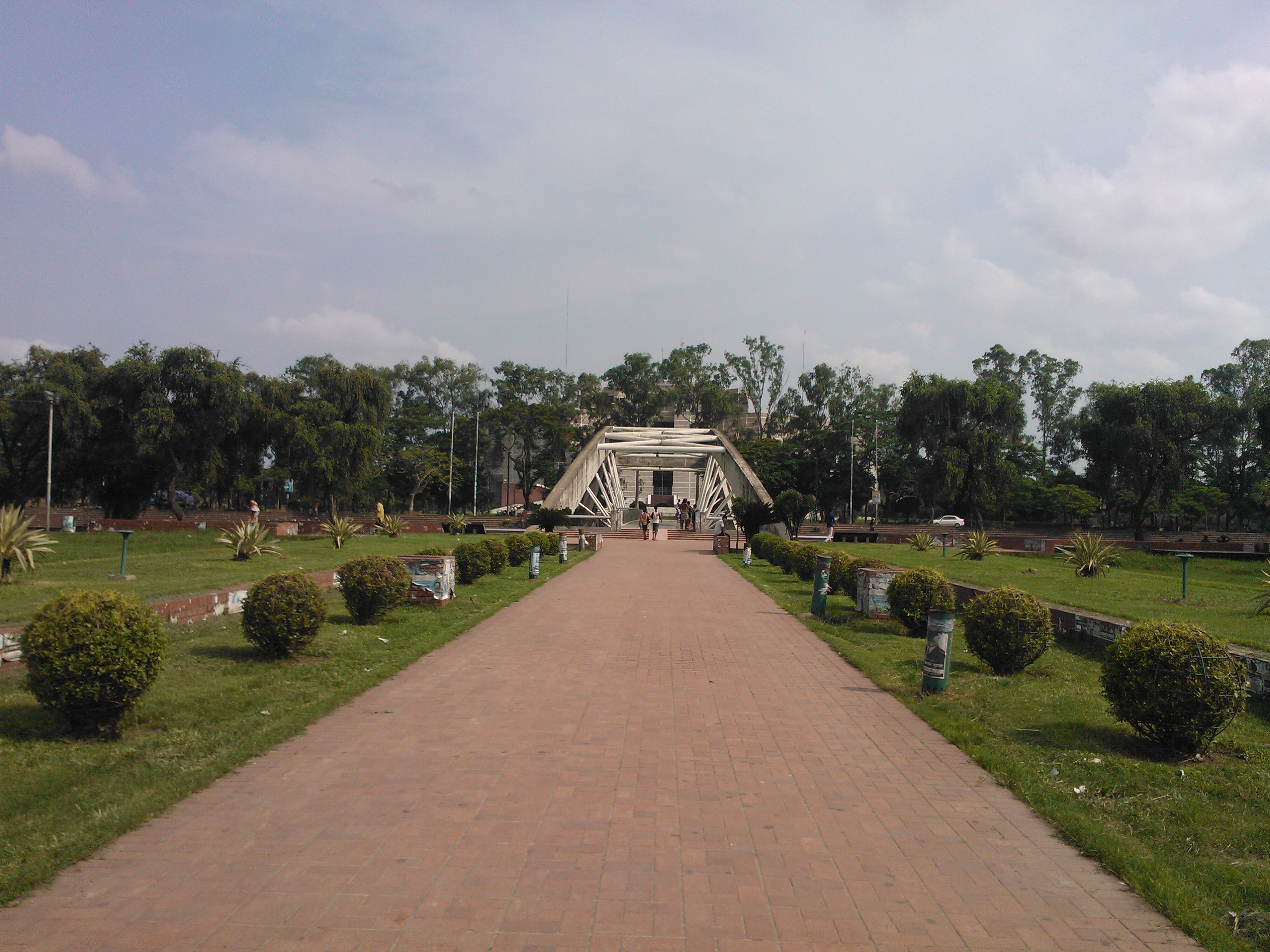 A bridge which runs over the Crescent Lake at Chandrima Uddan, Dhaka, Bangladesh.